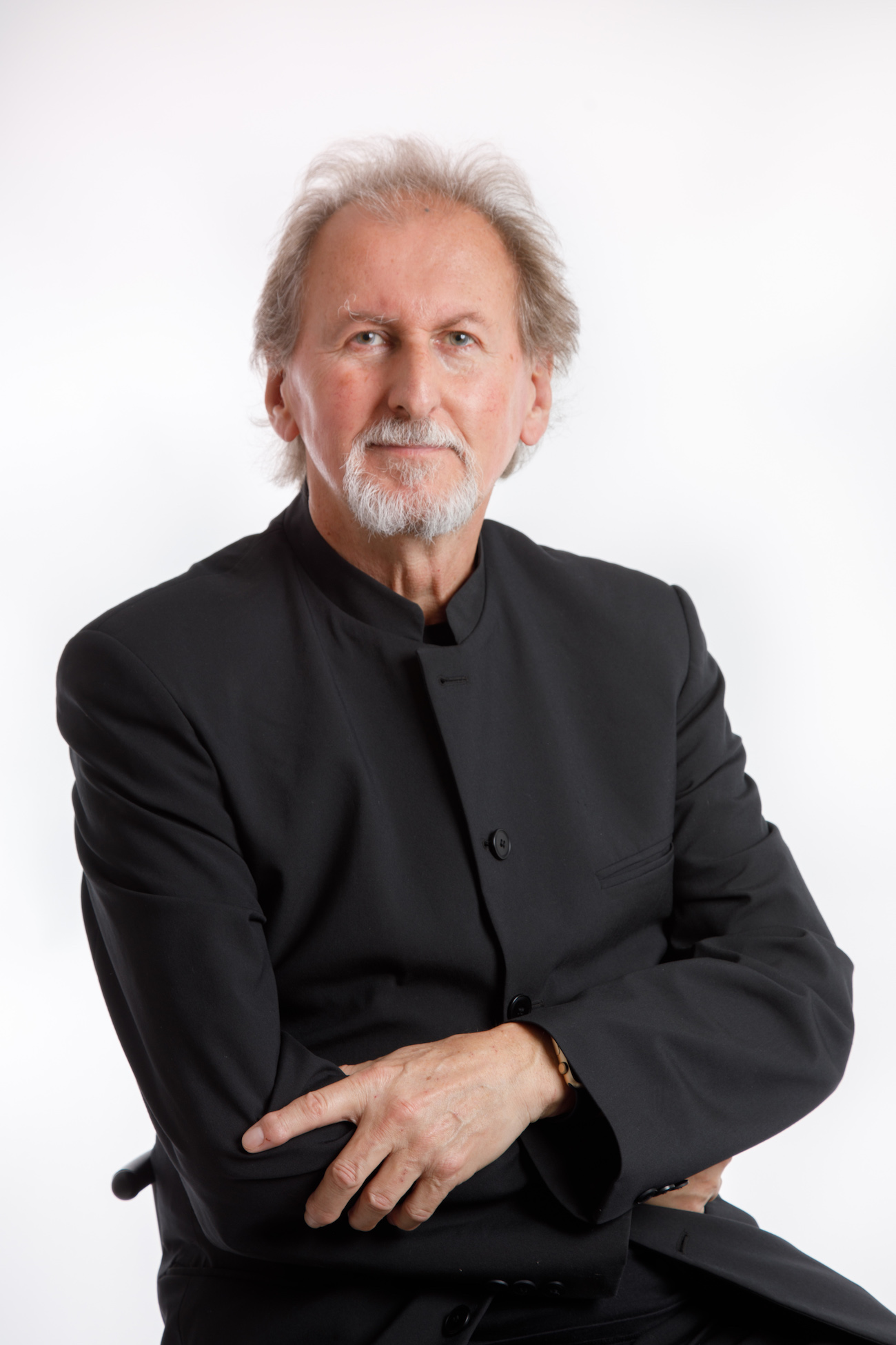 Portrait of Austrian pianist Gerhard Gruber